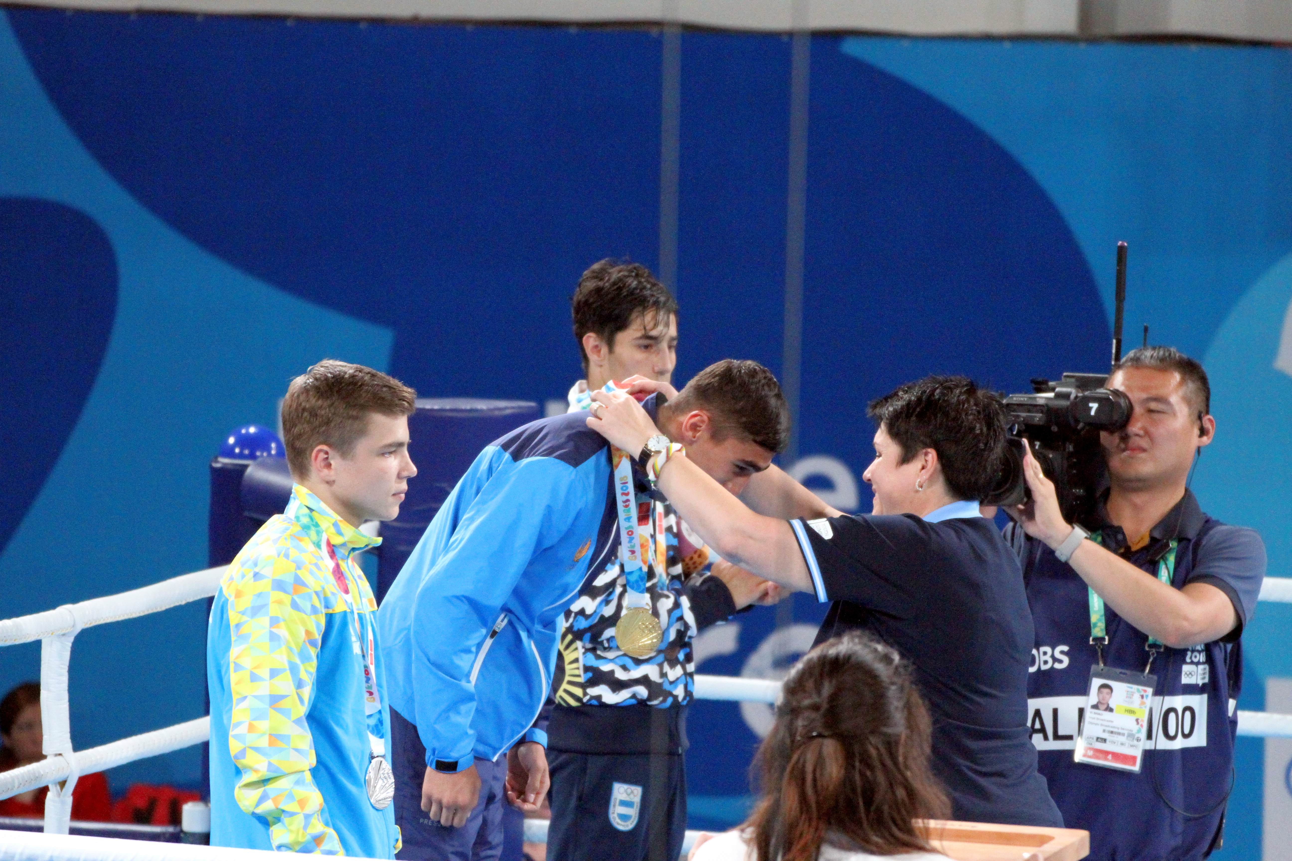 Boxing at the 2018 Summer Youth Olympics on 18 October 2018 – Boys' bantamweight Victory Ceremony - Gold: Abdumalik Khalokov (Uzbekistan), Silver: Maksym Halinichev (Ukraine), Bronze: Mirco Jehiel Cuello (Argentina); Medal handover by Daina Gudzinevičiūtė (IOC, Lithunia), Gift presented by Osvaldo Bisbal (Argentina, AIBA).